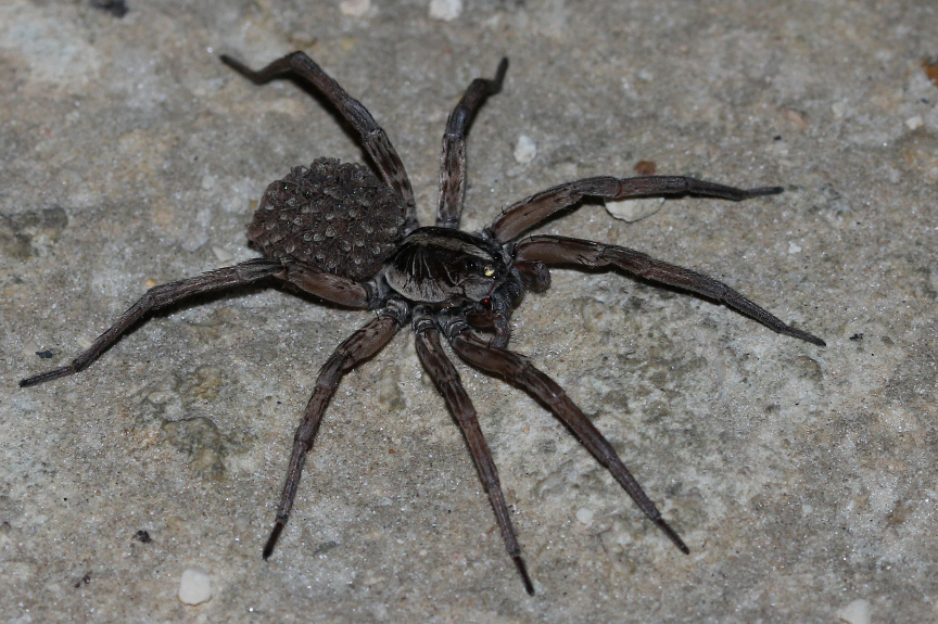 Wolf spider from central Florida